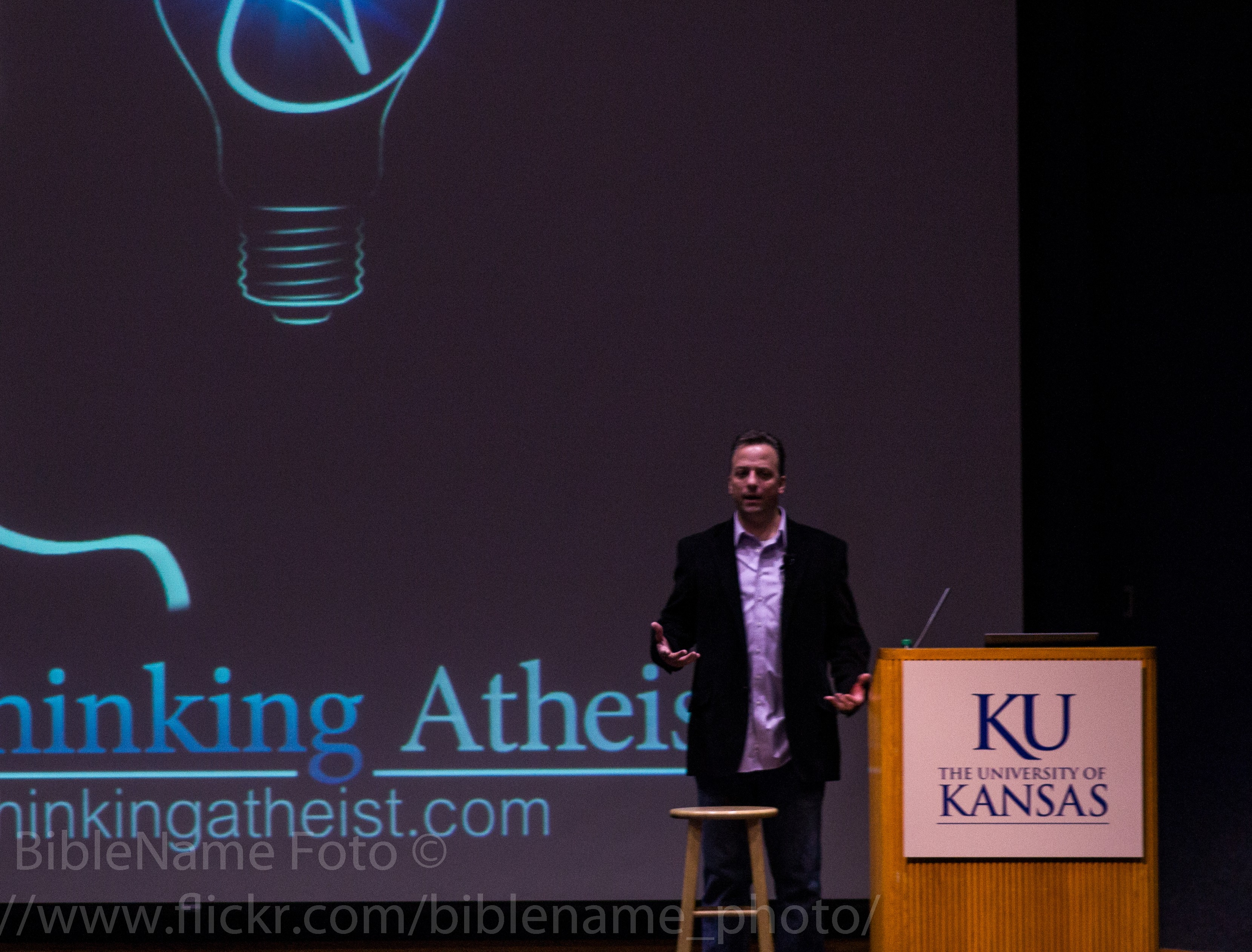 Seth Andrews presentation at ReasonFest 2013